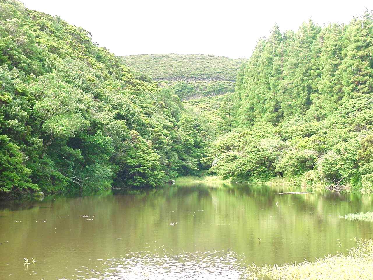 The waters of the Chã das Lagoinhas, a freshwater lake in Serreta, municipality of Angra do Heroísmo, Terceira (Azores), Portugal